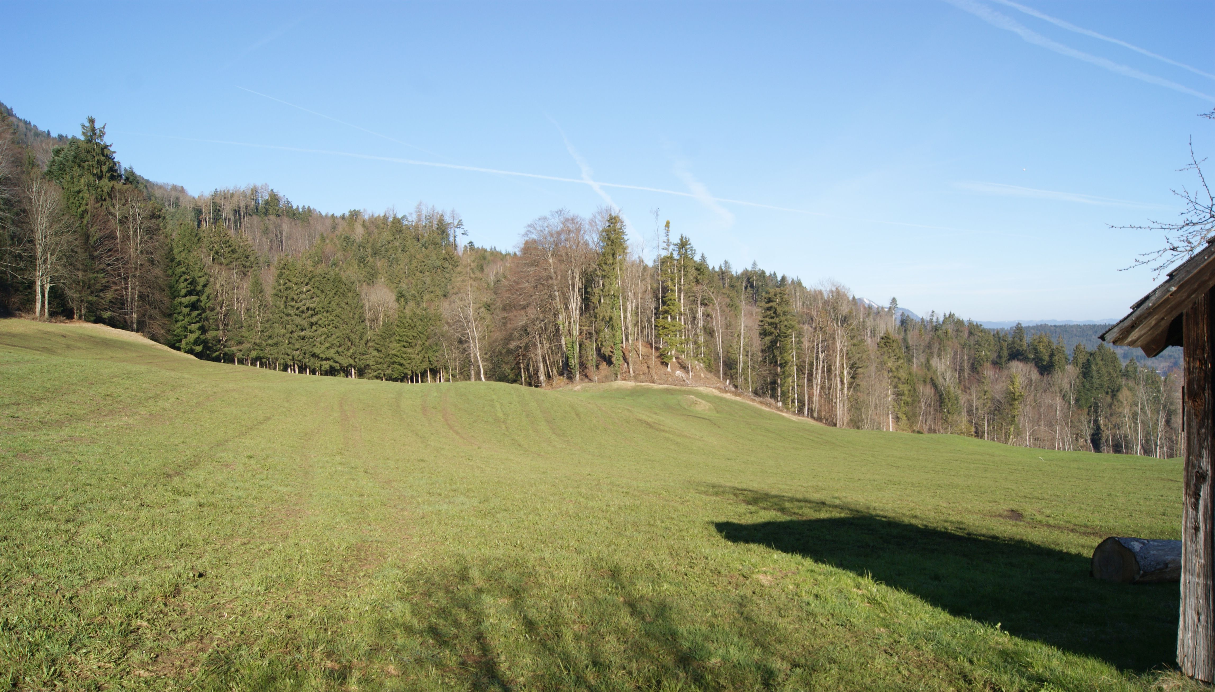 Frastafeders in Frastanz, Vorarlberg, Austria. Klöslefeld, castle hill of the former castle Frastafeders.